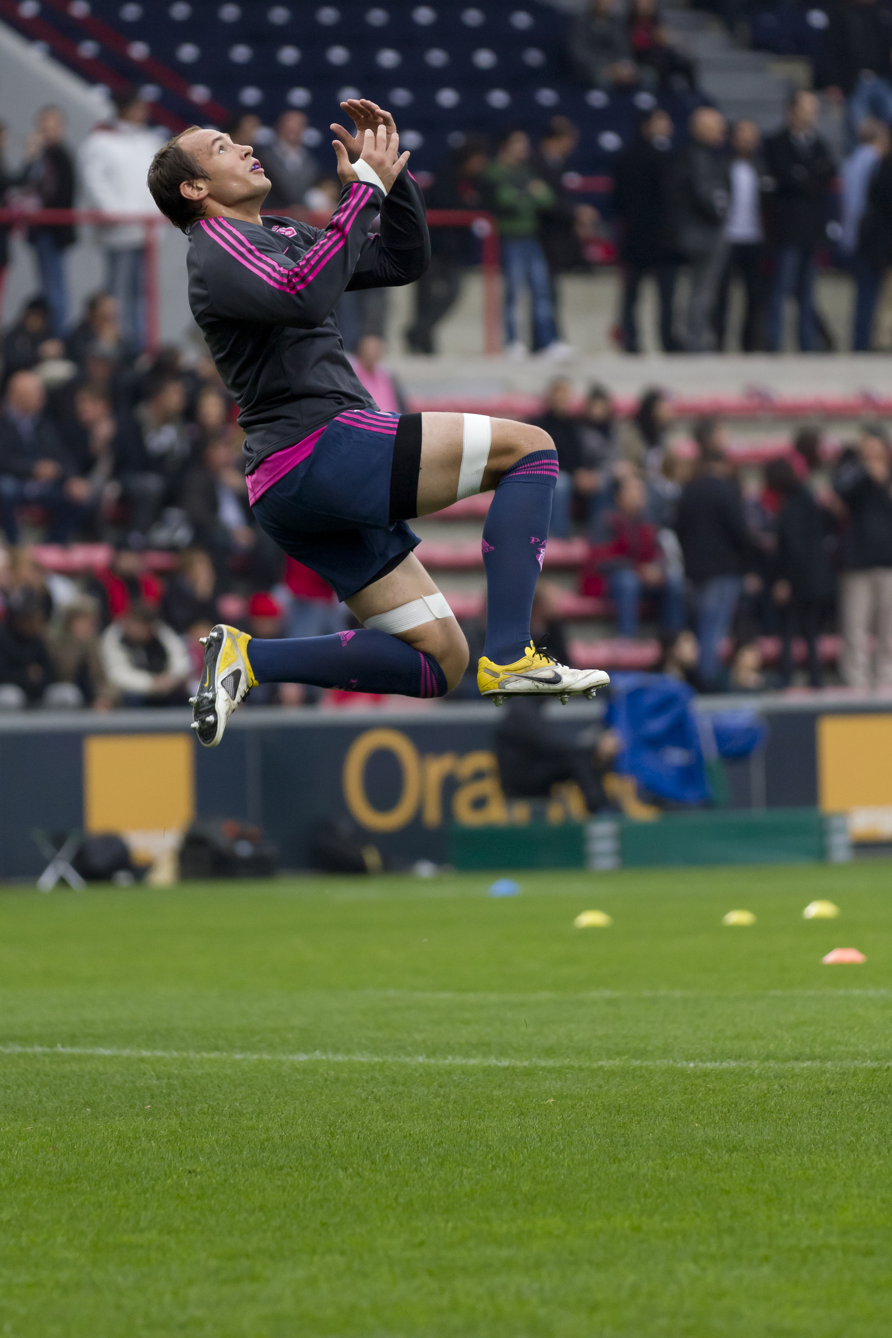 Sergio Parisse, jump during warm-up of the match opposing Stade Toulousian and Stade Français.